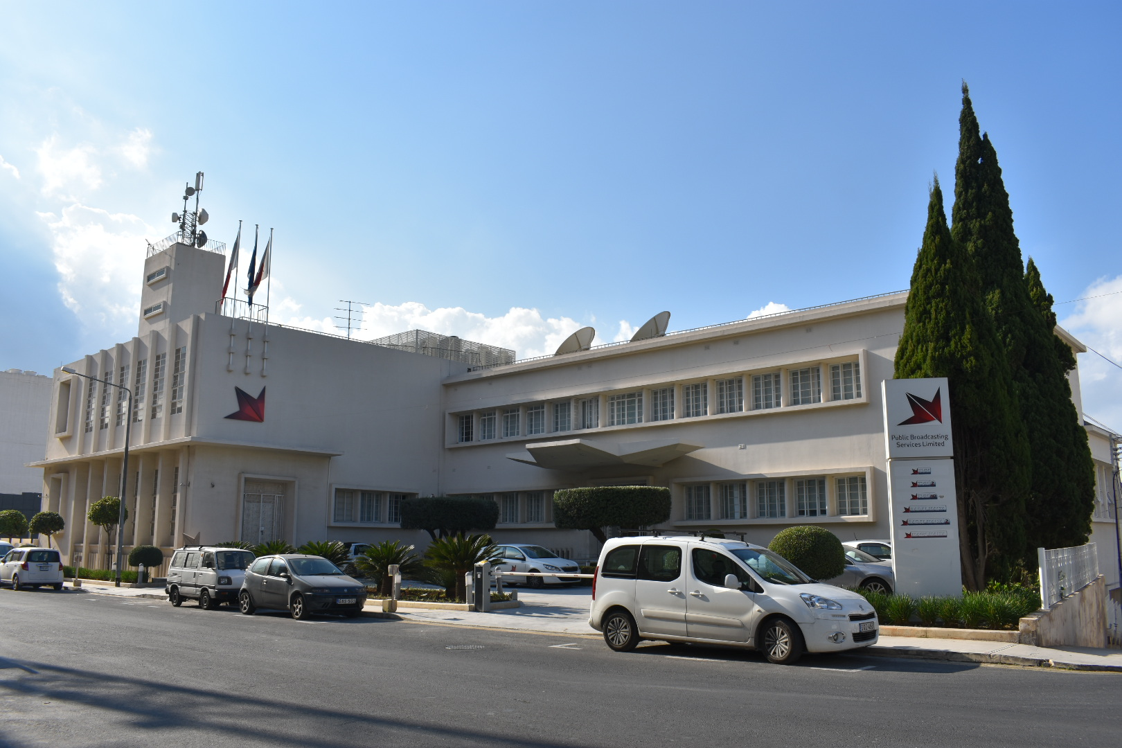 Pietà Malta Buildings